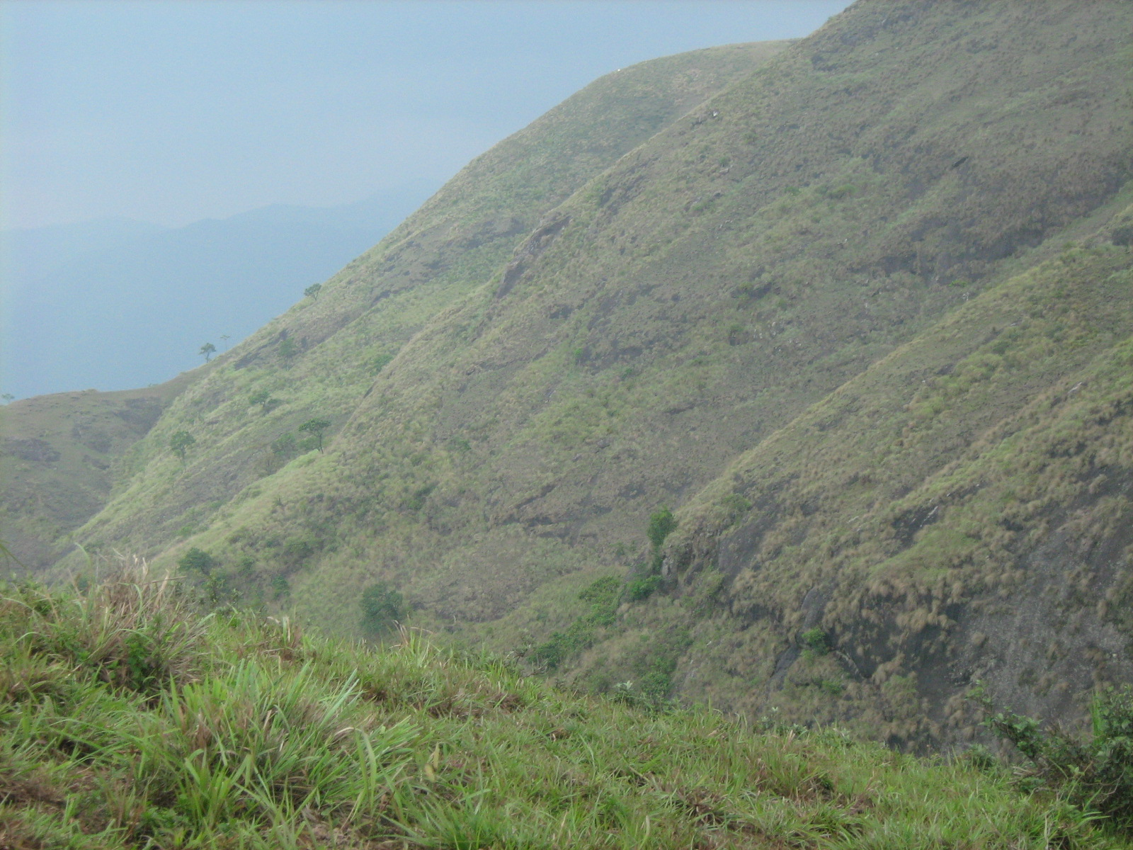 A scene from Mangaladevi, in Periyar Tiger Resere, Thekkady